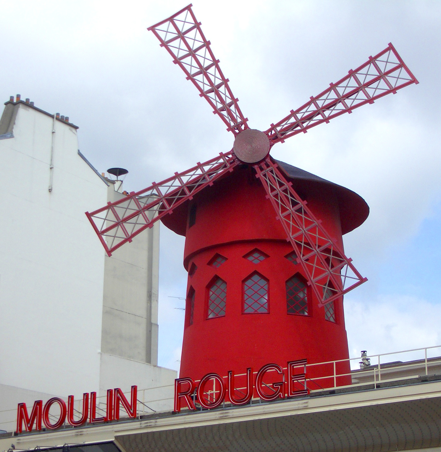 mill of the Moulin Rouge in Paris2004-08-26 11-51-32_0052